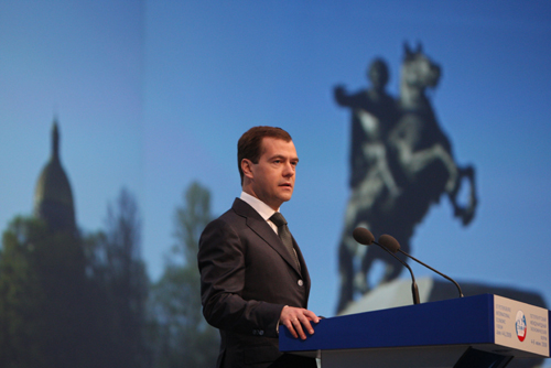 ST PETERSBURG. Address to the St Petersburg International Economic Forum’s plenary session.